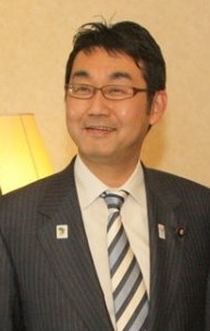 Katsuyuki Kawai